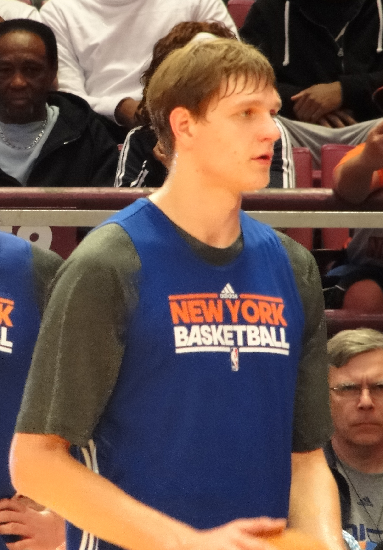 TImofey Mozgov of the New York Knicks at the team's open practice session in October 2009.